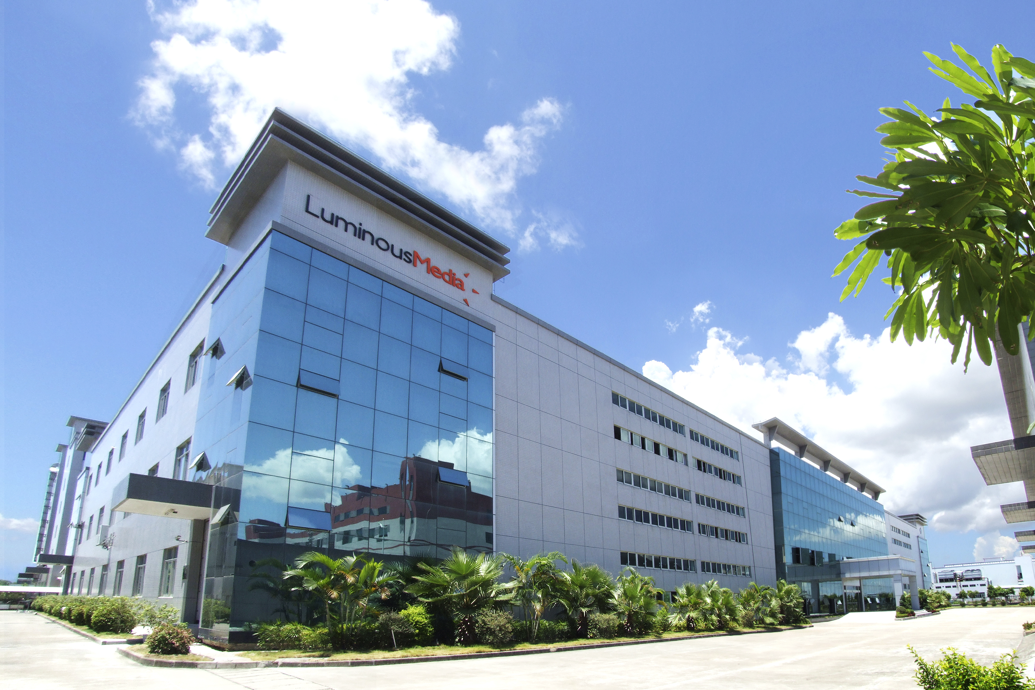 Luminous Media production facility in Zhu Hai Southrn China.